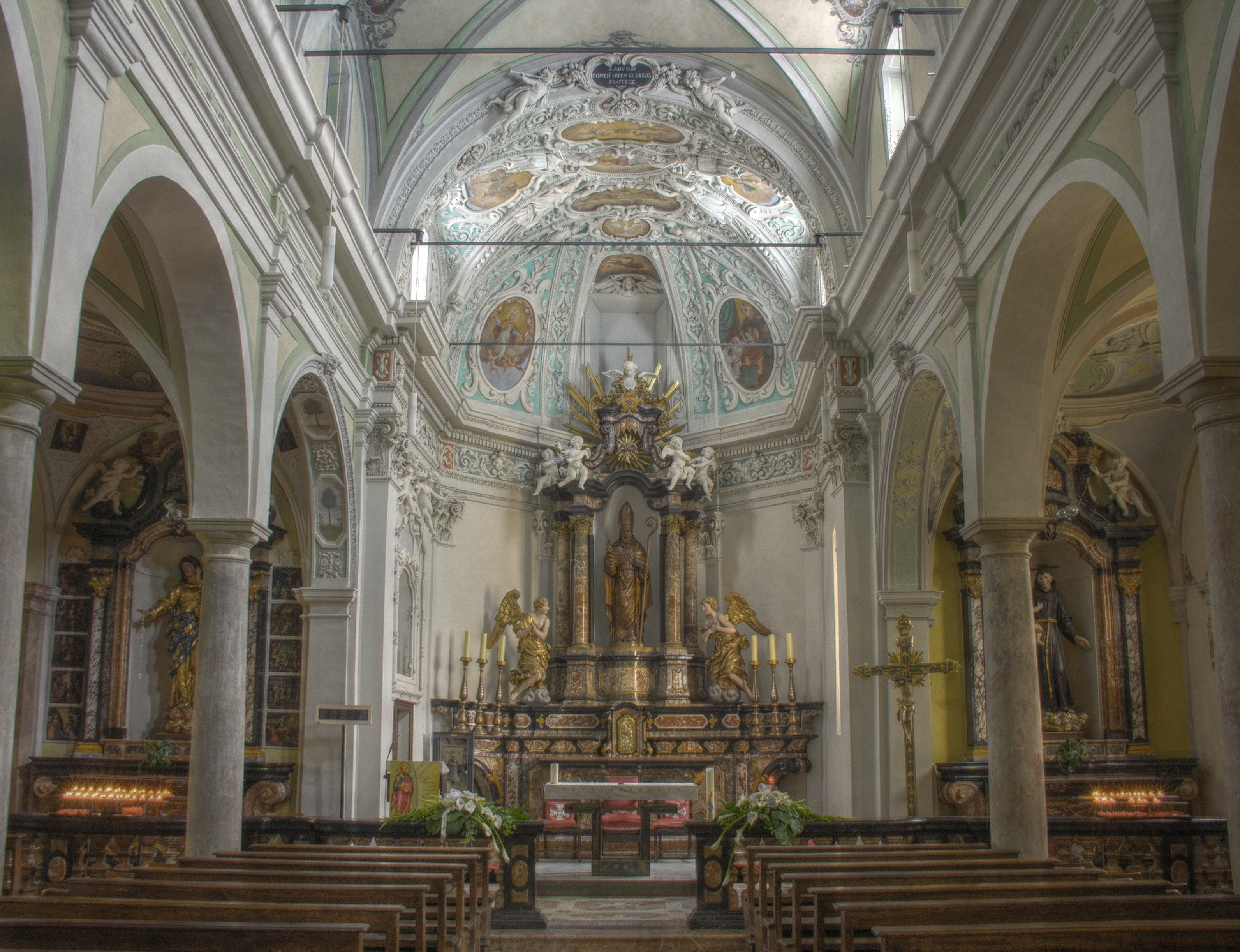 Collina d'Oro, Tessin, Switzerland - The Sant'Abbondio church - Interior view